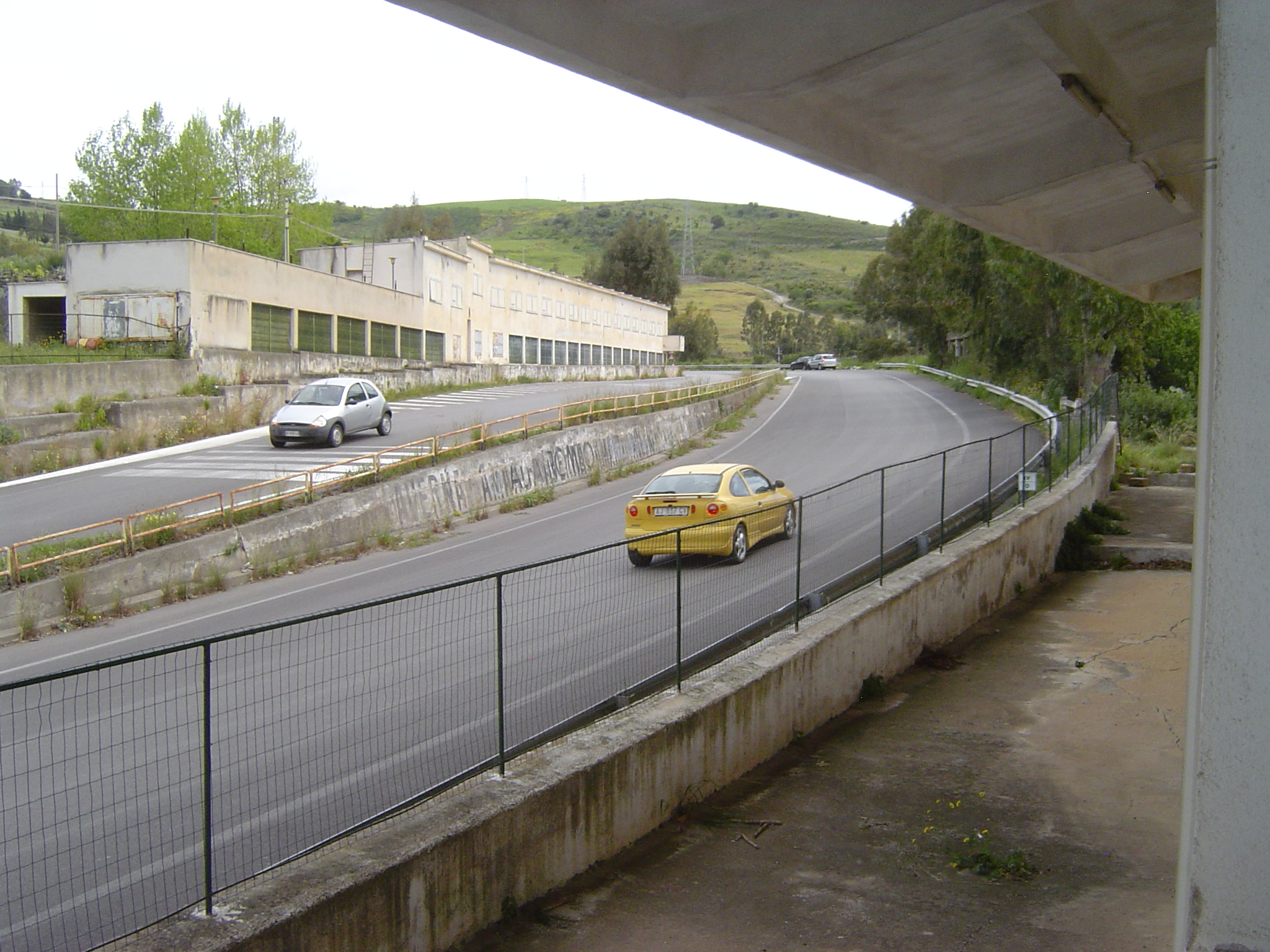 Targa Florio,Pitcomplex